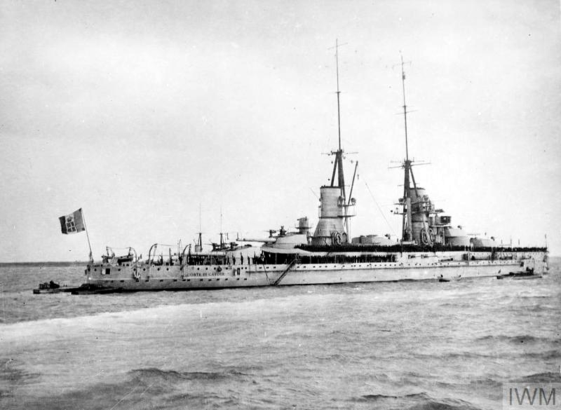 The Italian battleship Conte di Cavour off Taranto